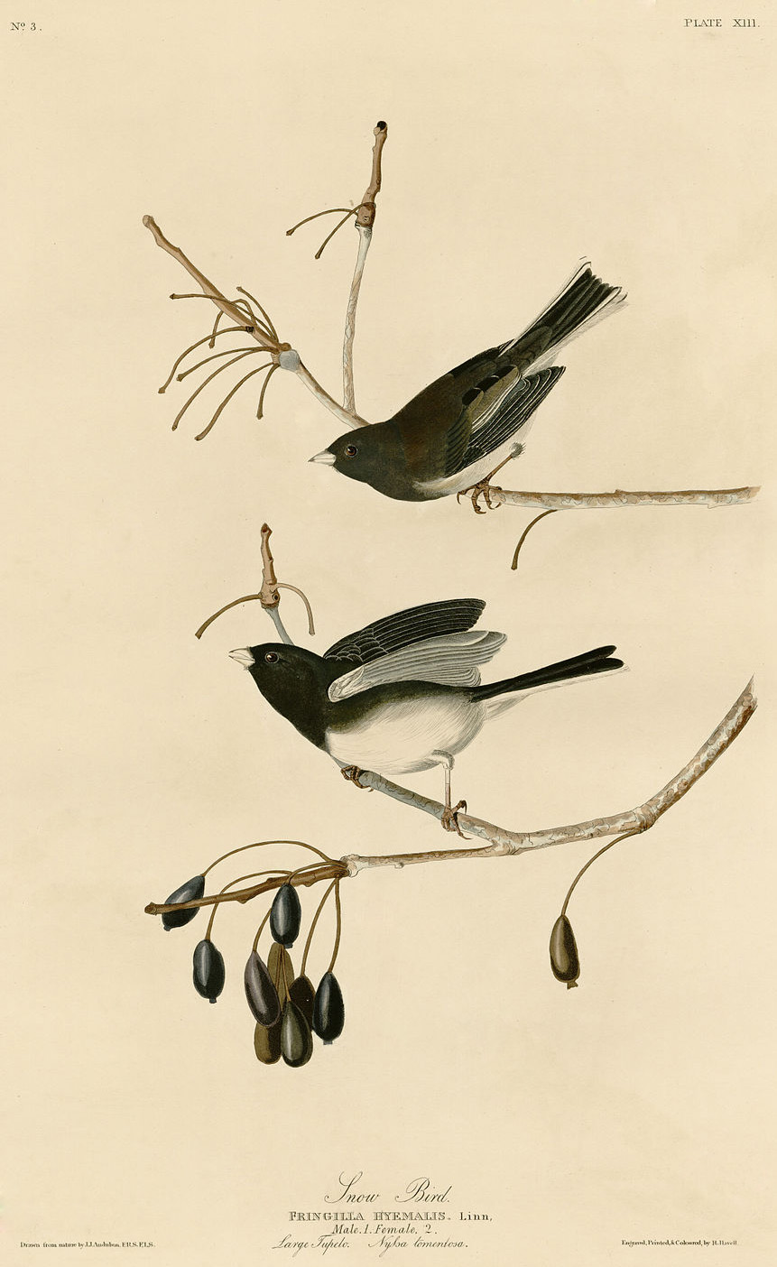 Plate 13 of Birds of America by John James Audubon depicting Snow Bird.